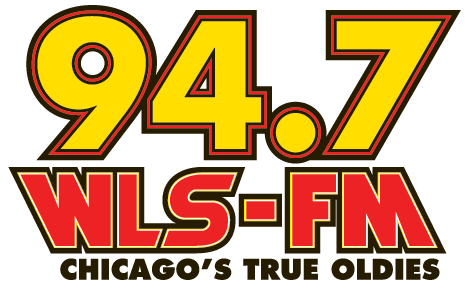 Former logo of the radio station 94.7 WLS-FM from 2008 to 2012 under the (2005–2012) "Chicago's True Oldies" branding.